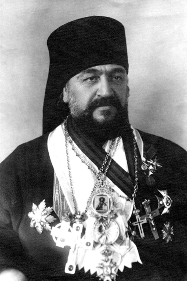 Metropolitan Nestor (Anisimov) of the Russian Orthodox Church